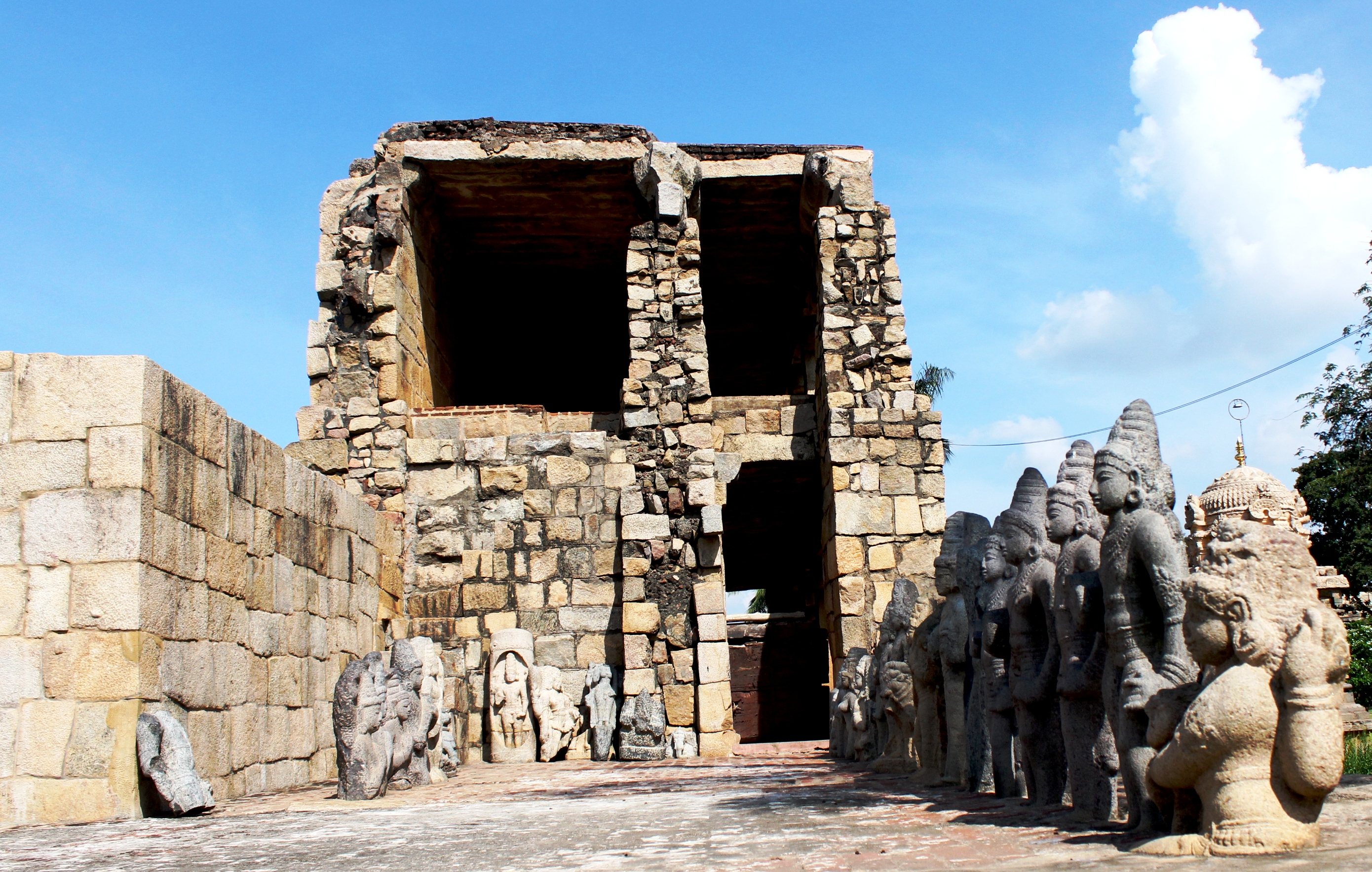 Ruined architectural marvel and statues